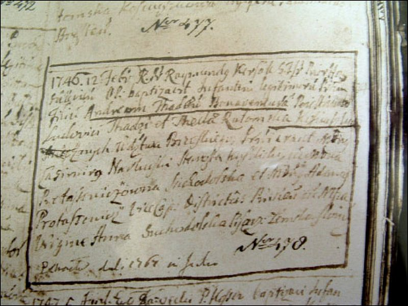 Thaddeus Kosciusko’s birth/christening certificate